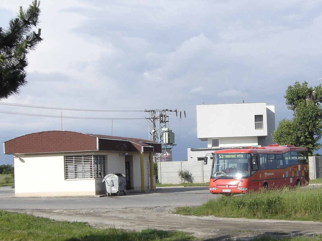 Vajnory, Bratislava, Slovakia